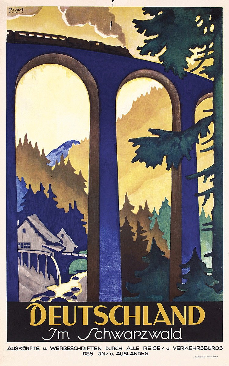 Poster by German artist Willy Dzubas